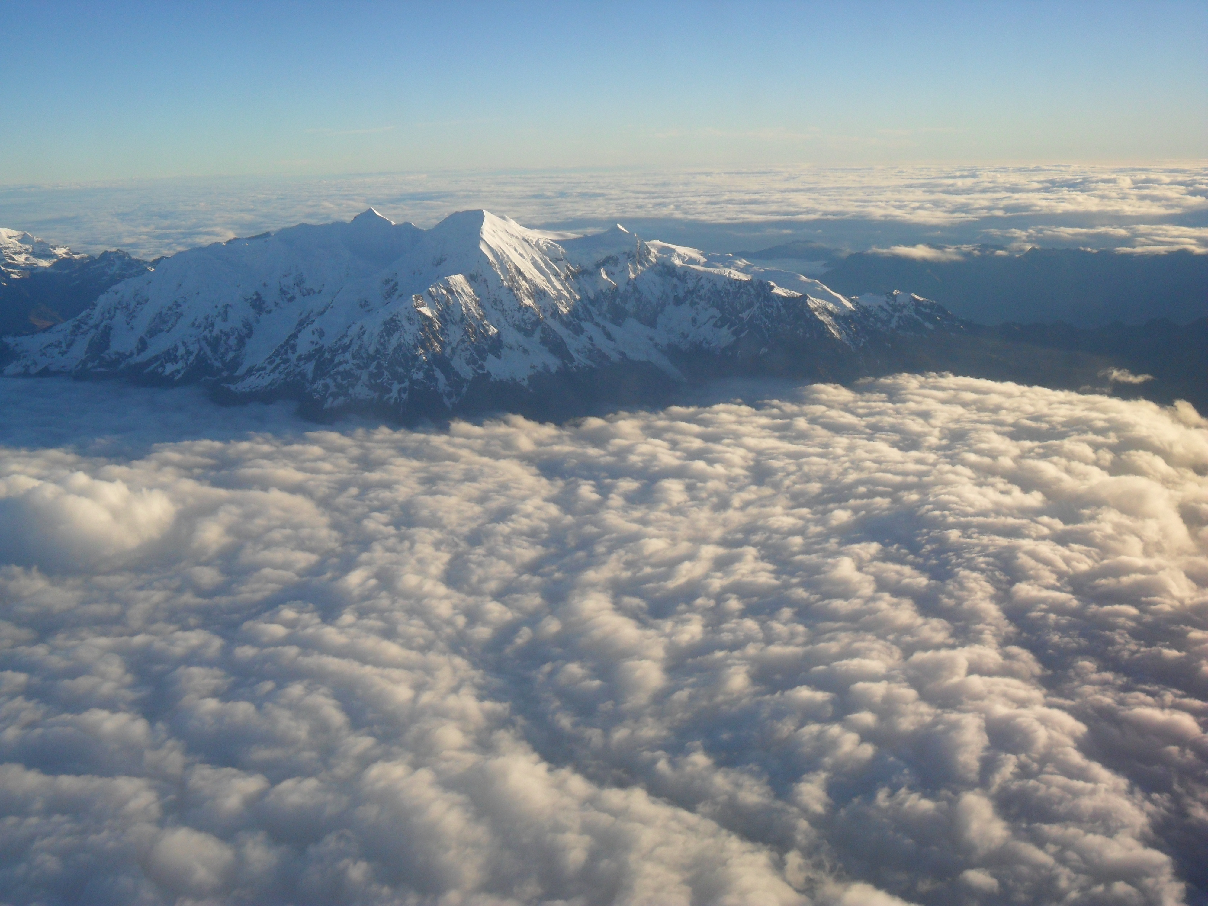 Illimani Mountain in the Bolivian Andes.